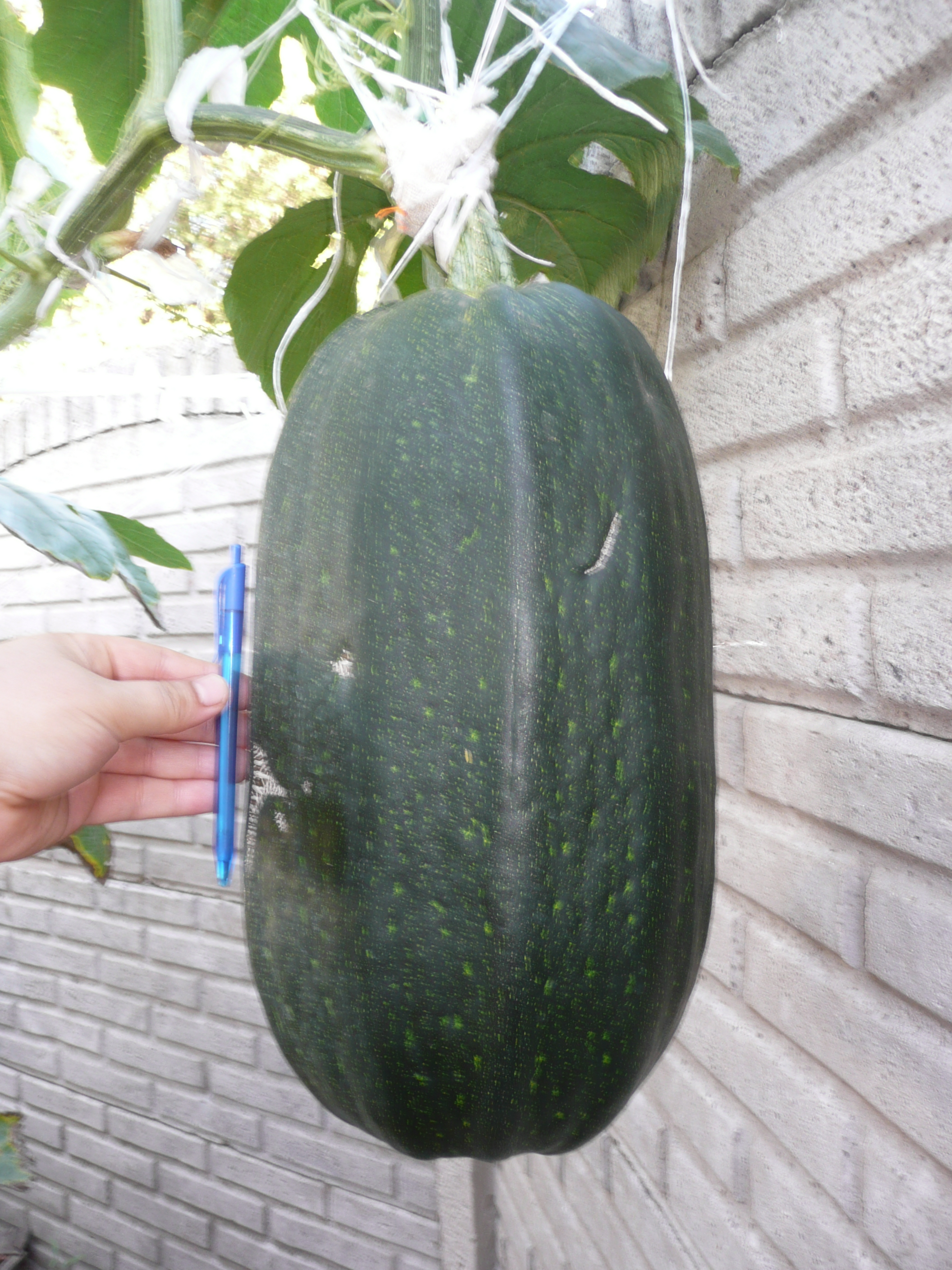 Cucurbita pepo "zapallo de Angola" semillería La Paulita. Sown in september 2014 in Fortín Olavarría town, Buenos Aires province, Argentina